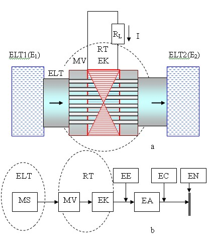 Molecular power 34. Functional and structural diagrams of the electrokinetic system of electric current production